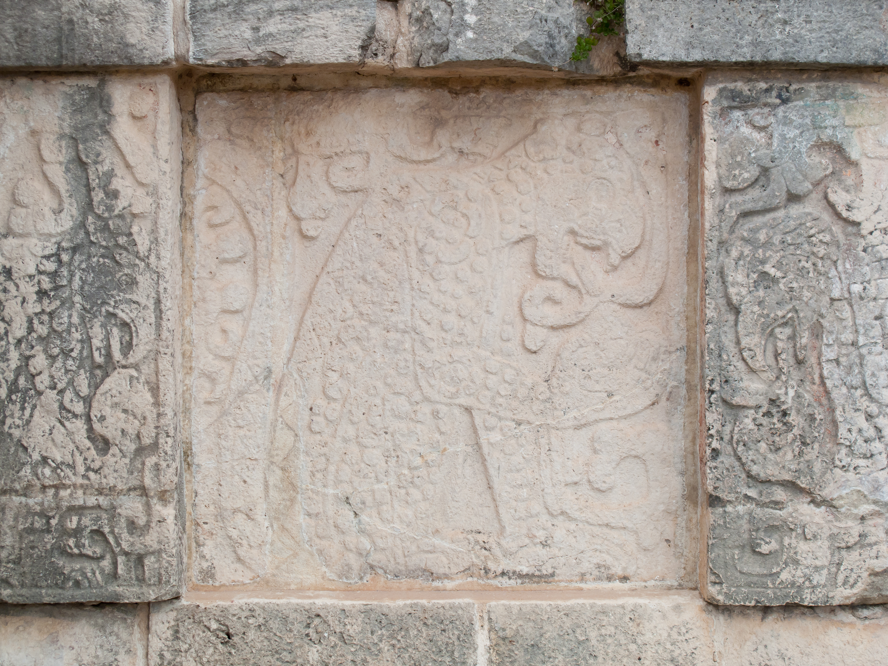 Relief in Chichén Itzá. Quintana Roo. MexicoGalego: Relevo en Chichén Itzá. Quintana Roo. México